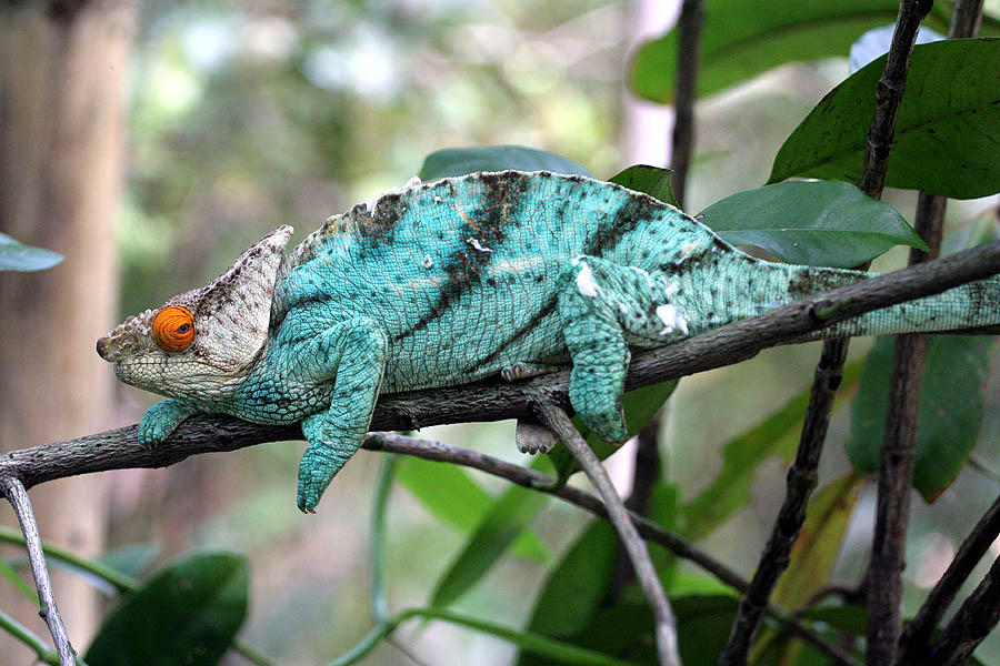 A Parson's chameleon (Calumma parsonii) at the Island of Sainte Marie, Madagascar